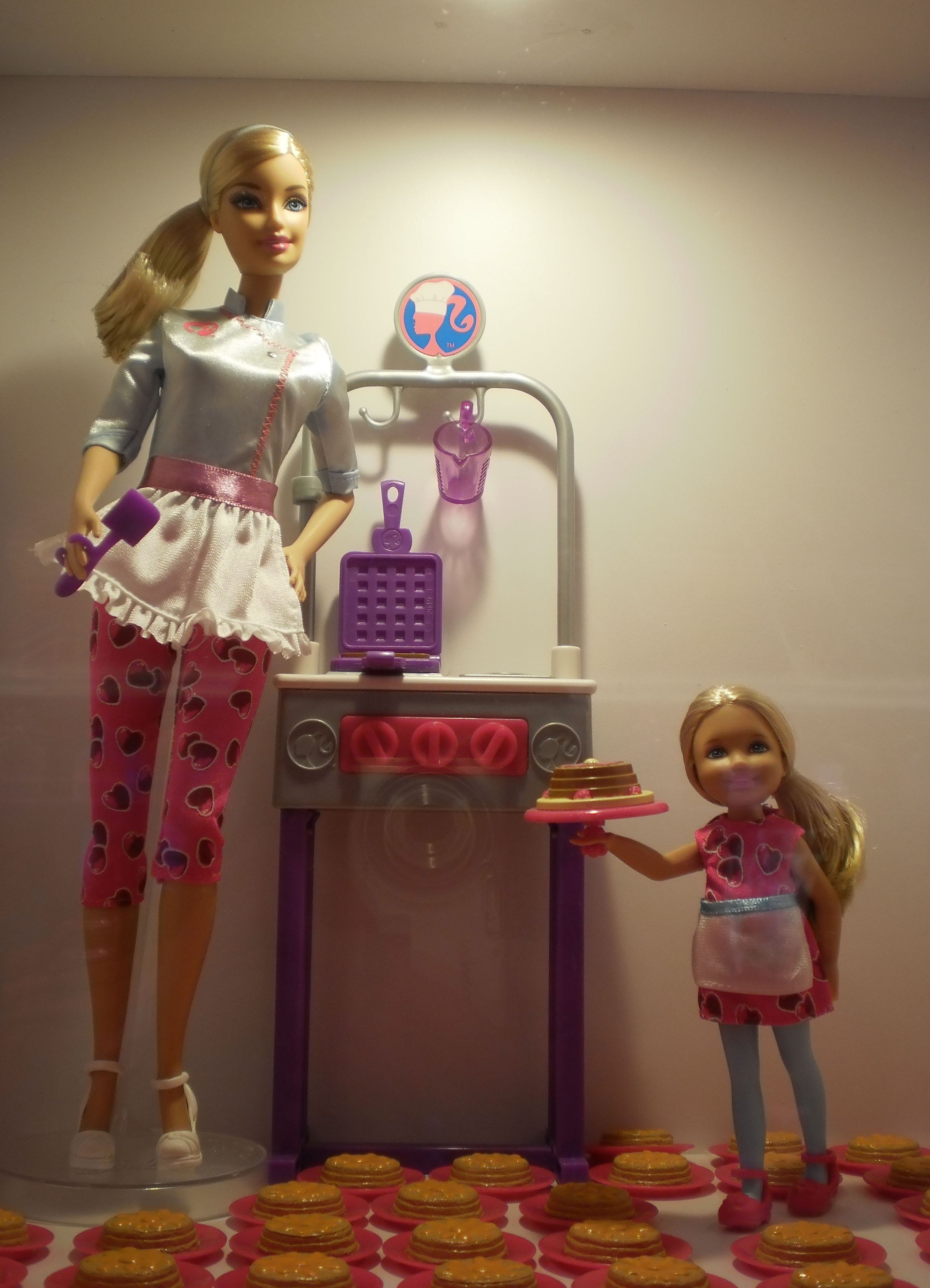 Barbie`s pancakes and waffles; Barbie - The Dreamhouse Experience; Berlin (Germany); Summer 2013 Barbie,Barbie Dreamhouse Berlin,Barbie`s pancakes